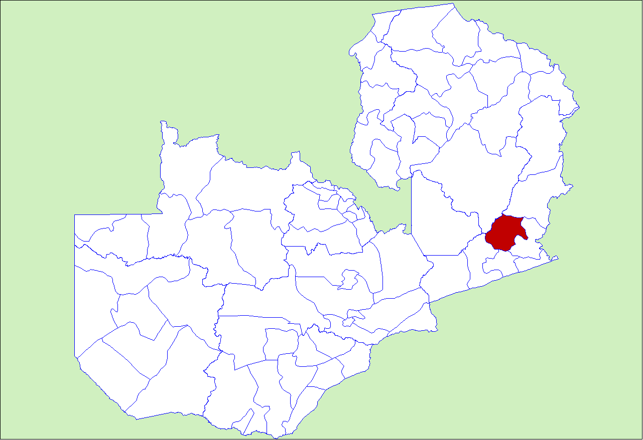 District locator in Zambia